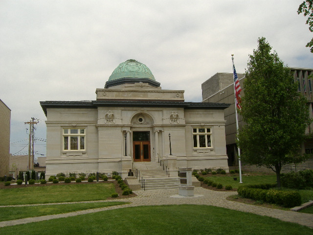 Picture of the Carnegie Library, located at Warder Park in Jeffersonville, Indiana